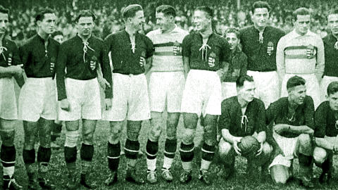 Hungary national football team, 1934 (rechtstaand) Sternberg II László, Lázár Gyula, Szalay Antal, Titkos Pál en Vági, (reservedoelman) Vágó József, Toldi Géza, Háda József en Tamássy István; (gehurkt) Szűcs Gyõrgy, Sárosi Gyõrgy en Cseh II László.